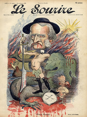 Monsieur Bérenger by Eugène Cadel. Front page from the French Magazine Le Sourire issus 5, about René Bérenger, novembre 1899. Lithography.